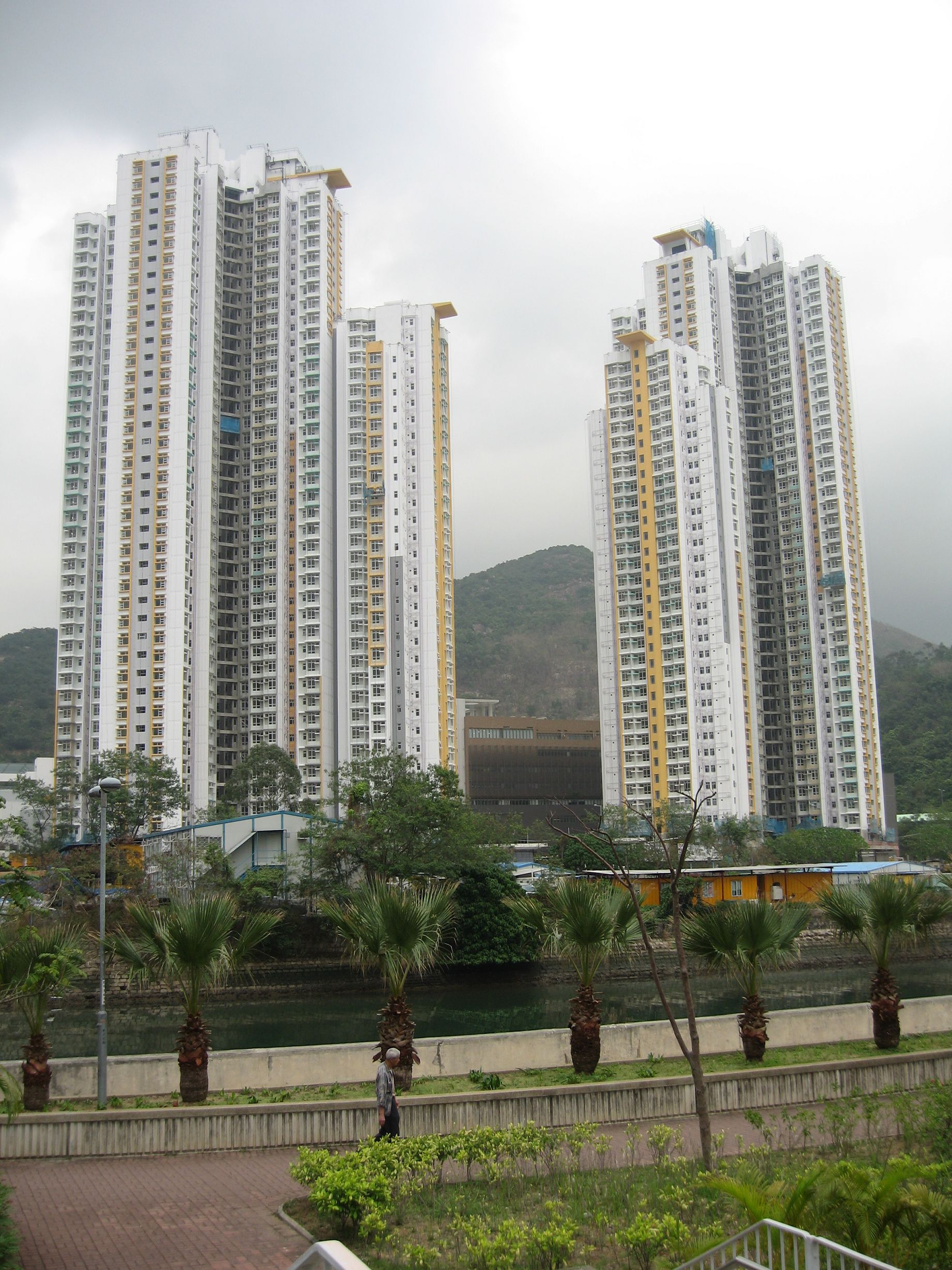 HK Shek Mun New Public Estate 13 March 2009